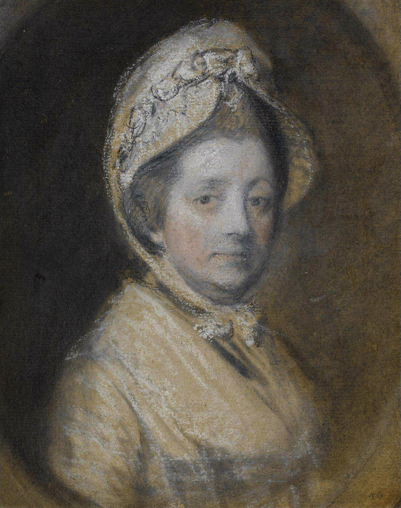 Portrait of Margaret Burr (1728-1797), Mrs Thomas Gainsborough